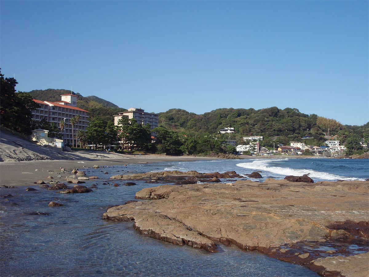 Imaihama Coast (Imaihama-kaigan) in Kawazu, Shizuoka Prefecture, Japan.